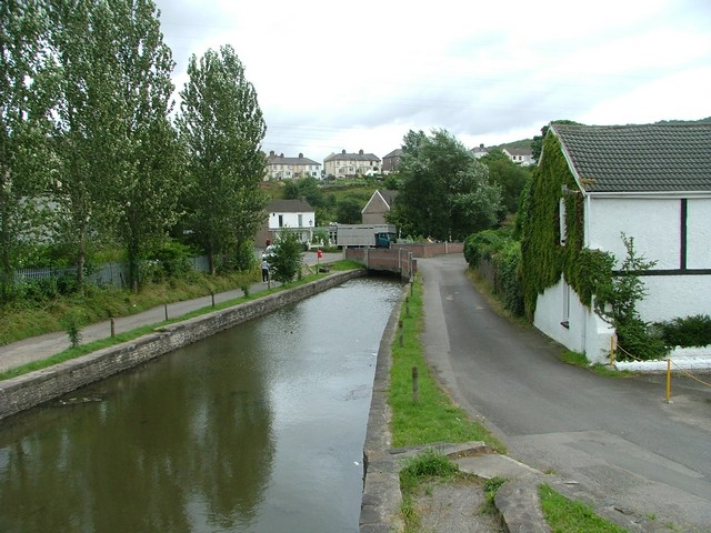 Neath Canal at Giants Grave, near to Briton Ferry, Neath Port Talbot/Castell-Nedd Port Talbot, Wales. Part of National Cycle Network 47, Briton Ferry